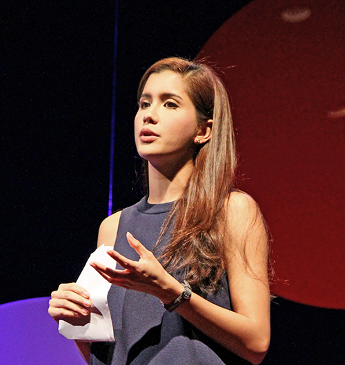 This image was taken at NIST International School during Praya's TEDx talk